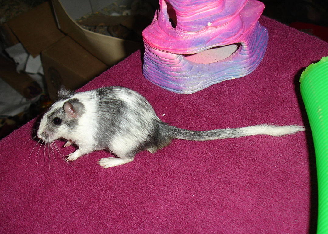 Photo of a mottled black male gerbil